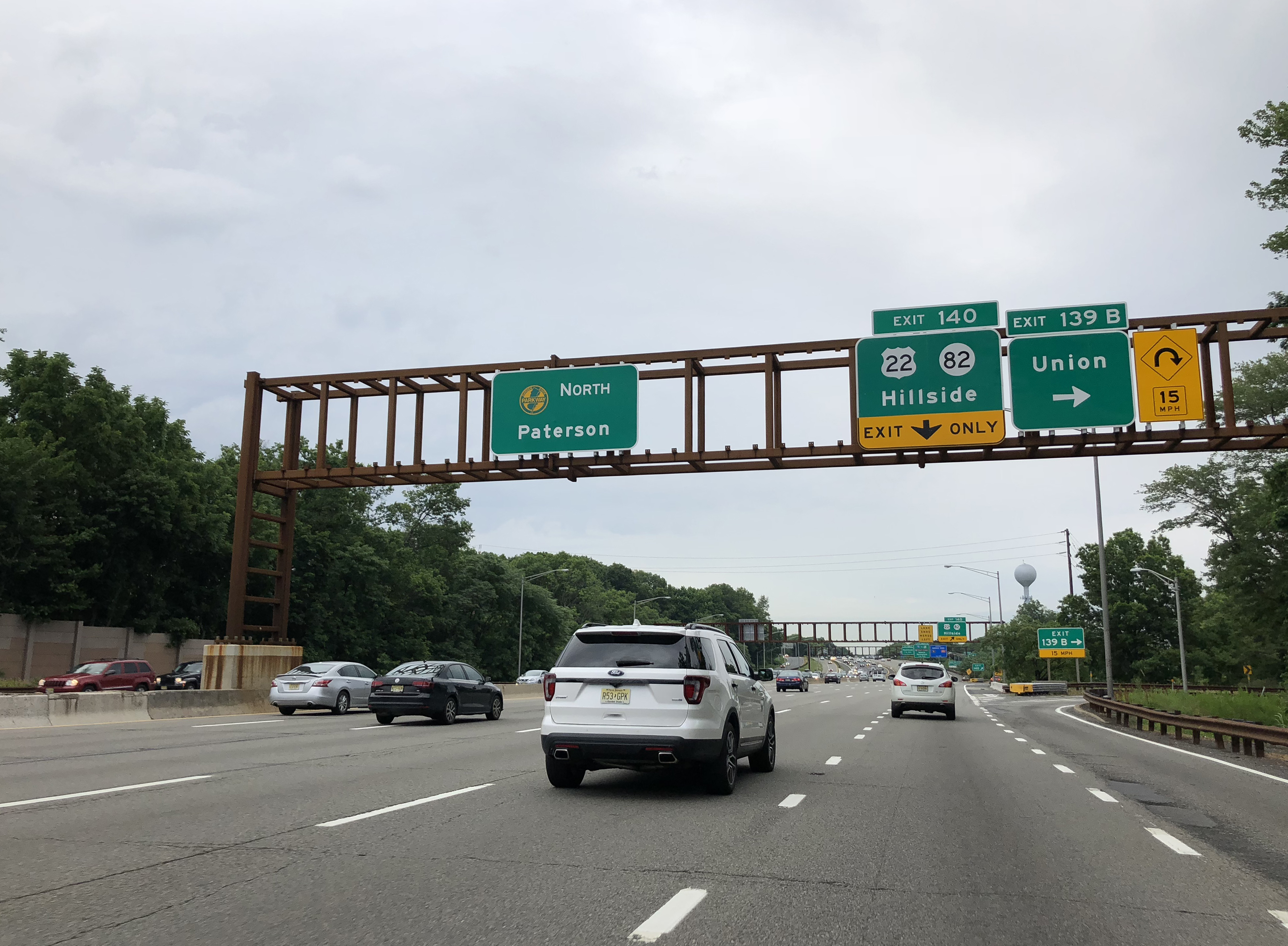 View north along New Jersey State Route 444 (Garden State Parkway) at Exit 139B (Union) in Union Township, Union County, New Jersey